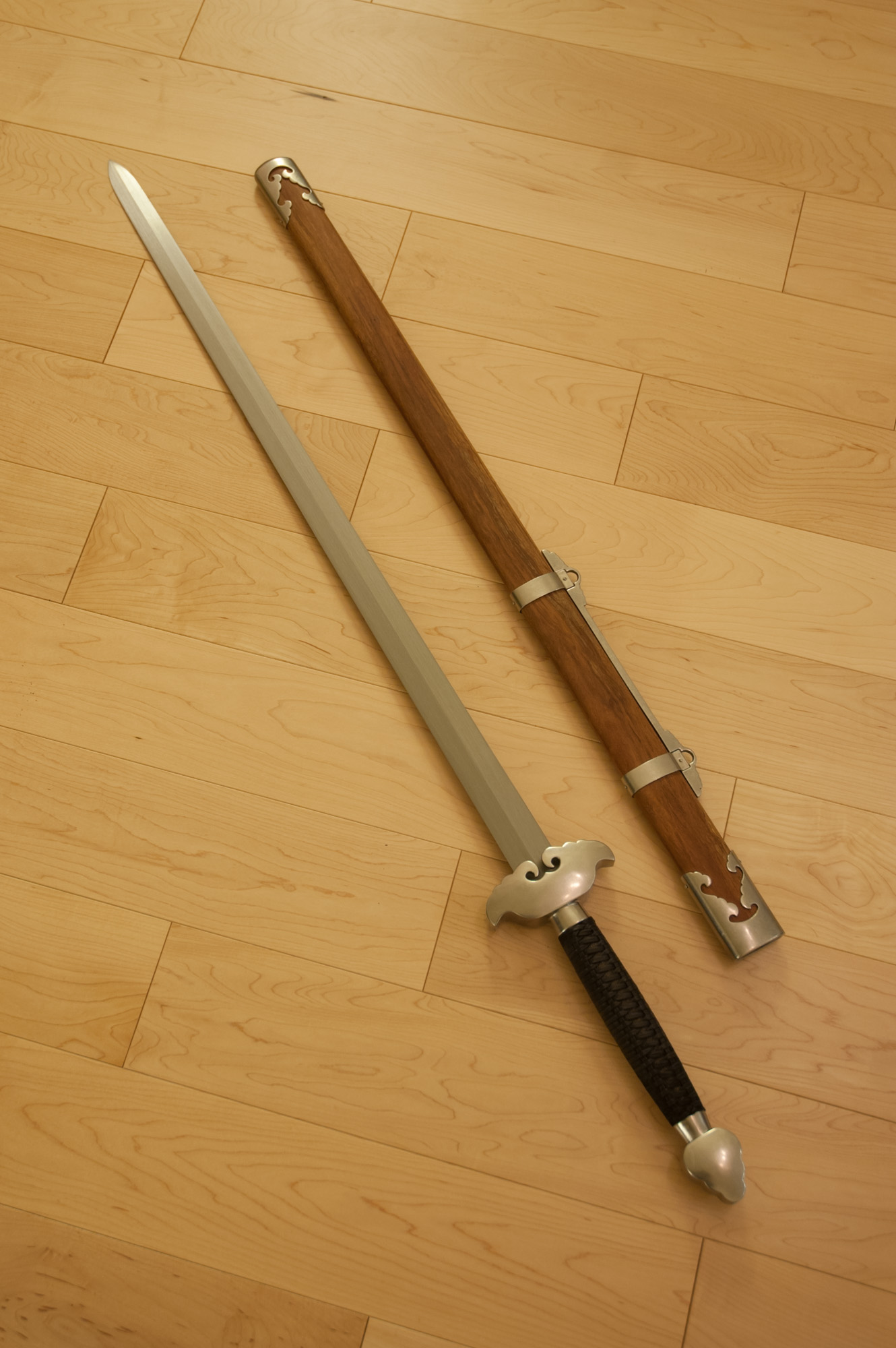 Chinese jian designed by Scott M. Rodell. Made by Hanwei.